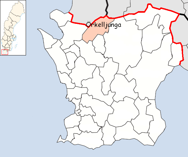 Örkelljunga Municipality in Scania, Sweden Designed by me. Mere outlines are a PD source from